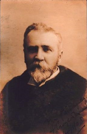 1906 George Croydon Marks Liberal MP Cornwall North